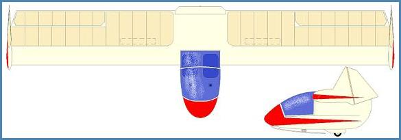 Todthunter Twin Plank Flying Wing